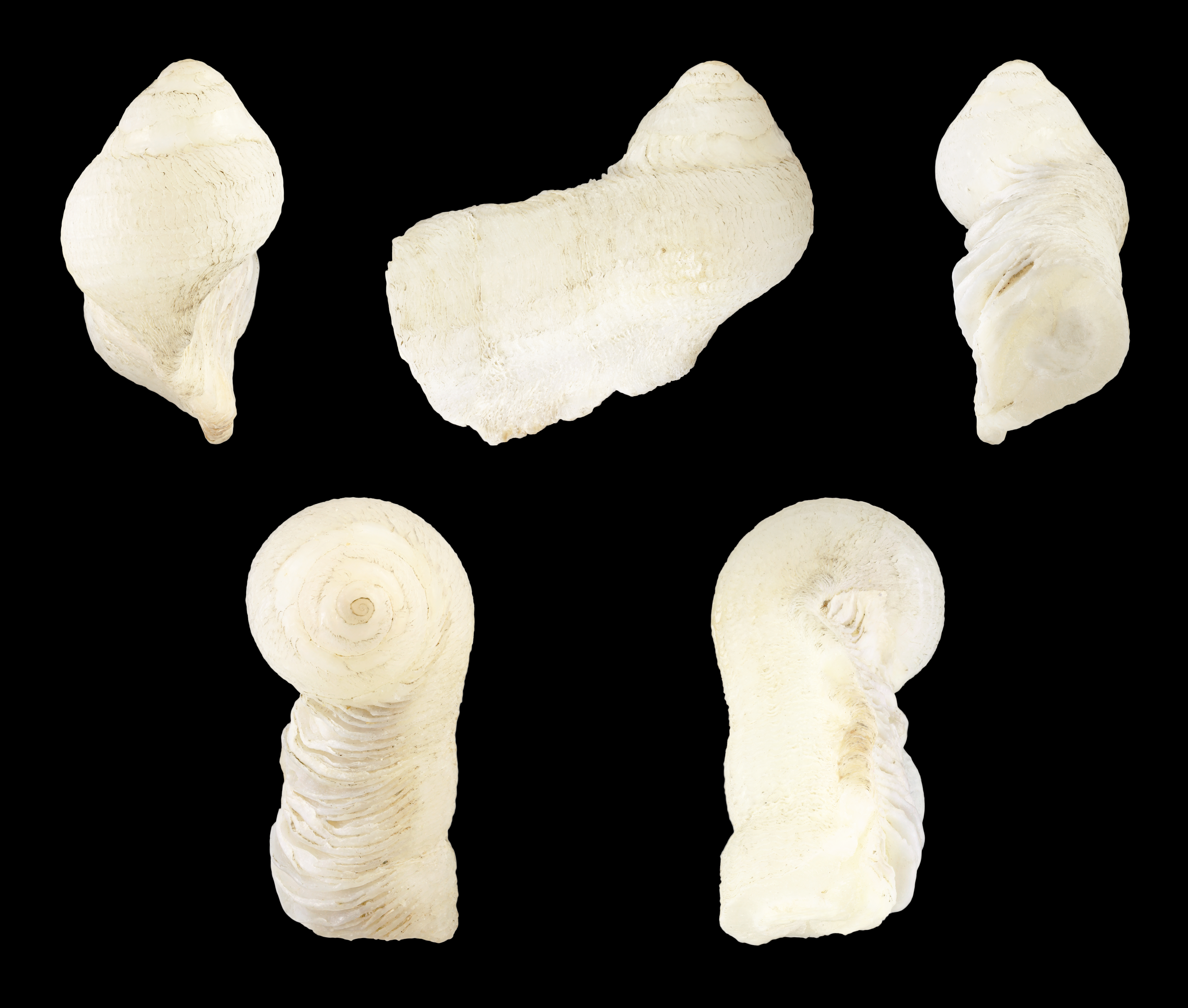 Burrowing Coral Snail; Height 3.4 cm; Originating from Indonesia; Shell of own collection, therefore not geocoded.